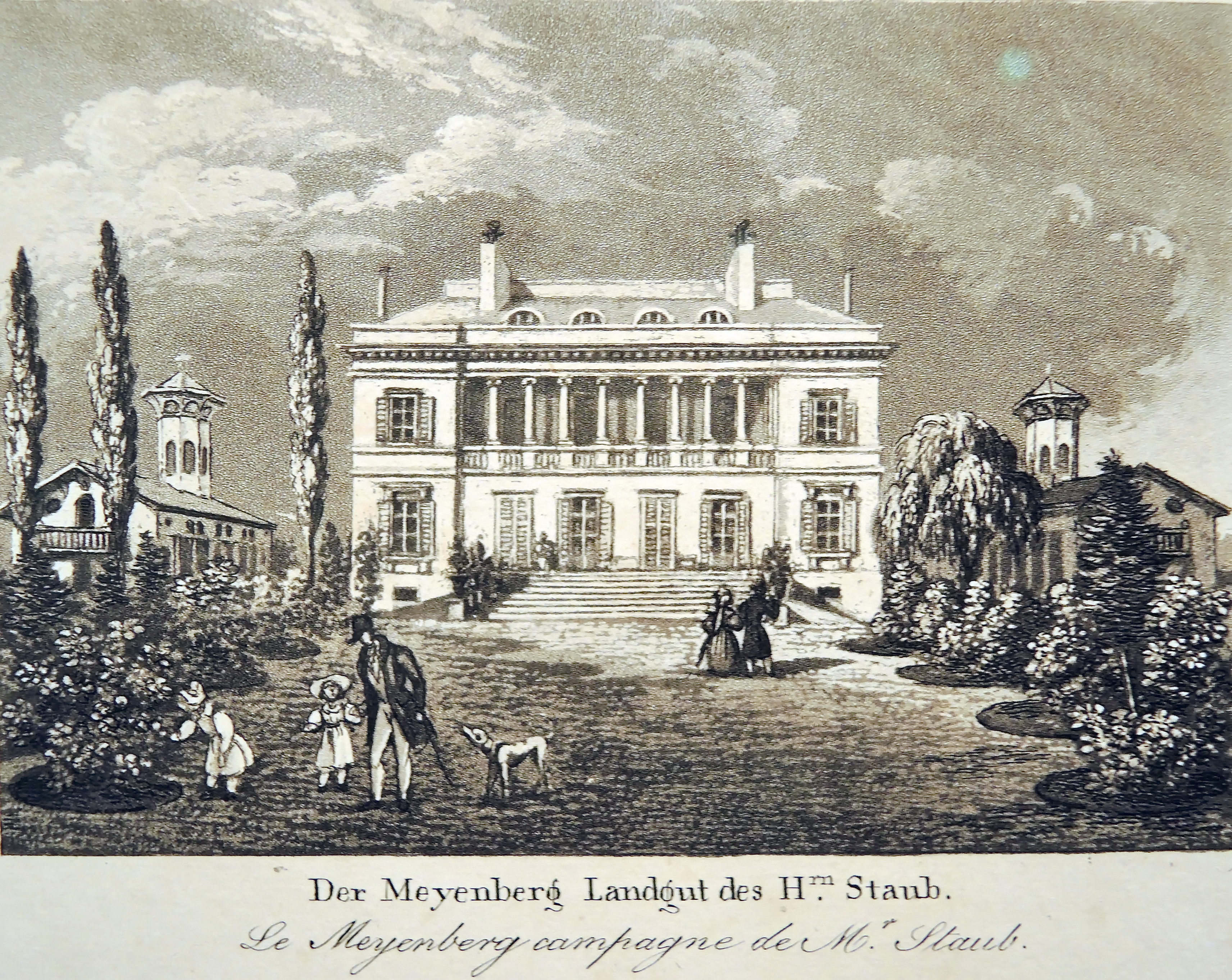 Collection of the Stadtmuseum) in Rapperswil (Switzerland)